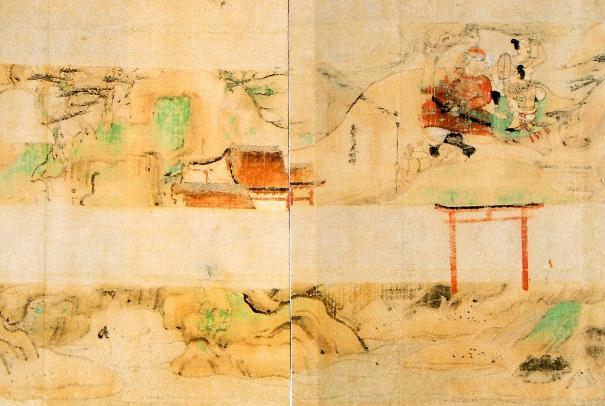 Mōko Shūrai Ekotoba e20